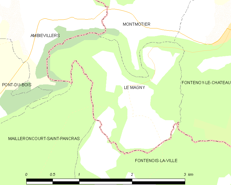 Map of French municipality Le Magny